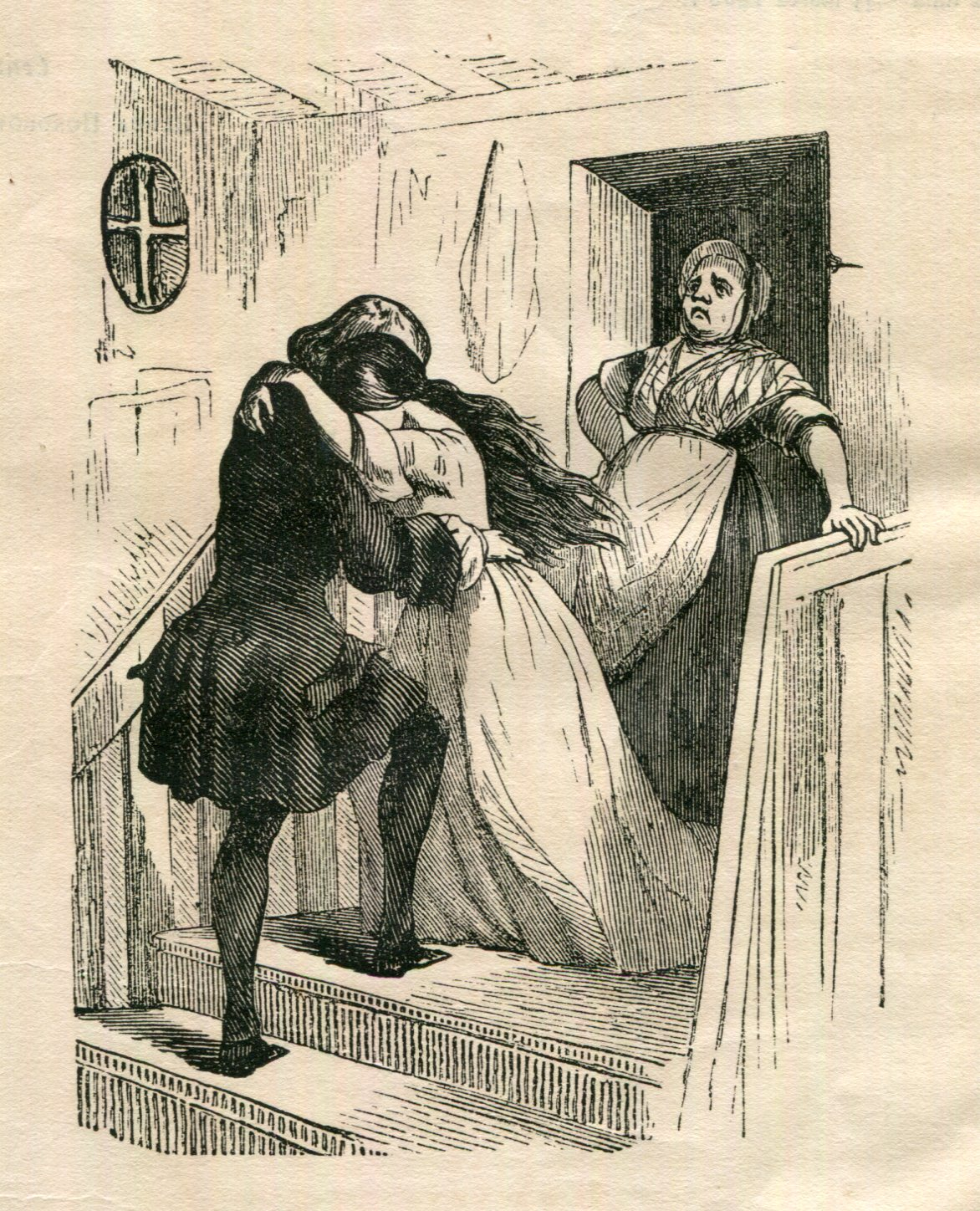 Illustration from The Vicar of Wakefield by O. Goldsmith (engraving by Édouard Frère)